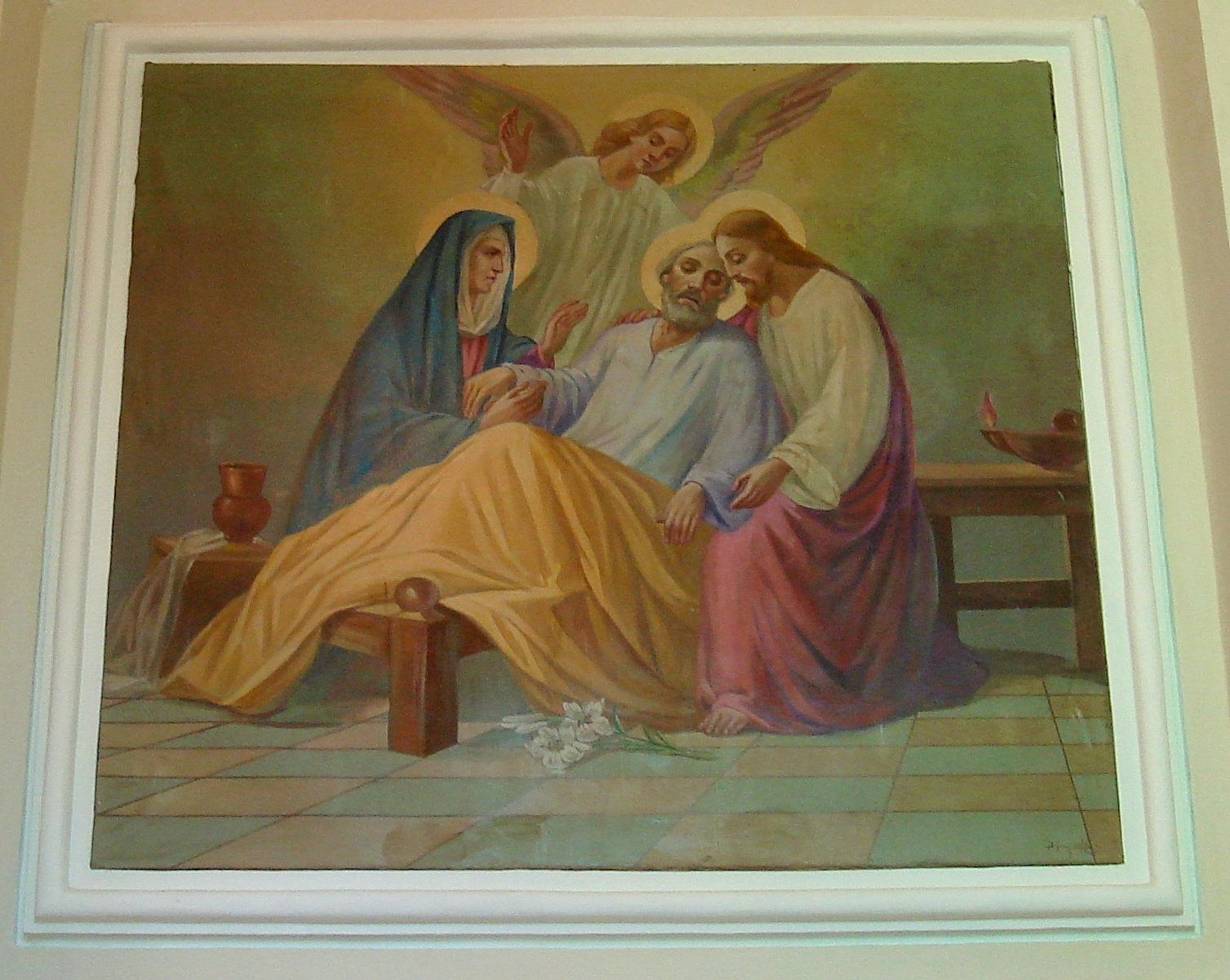 The death of Saint Joseph